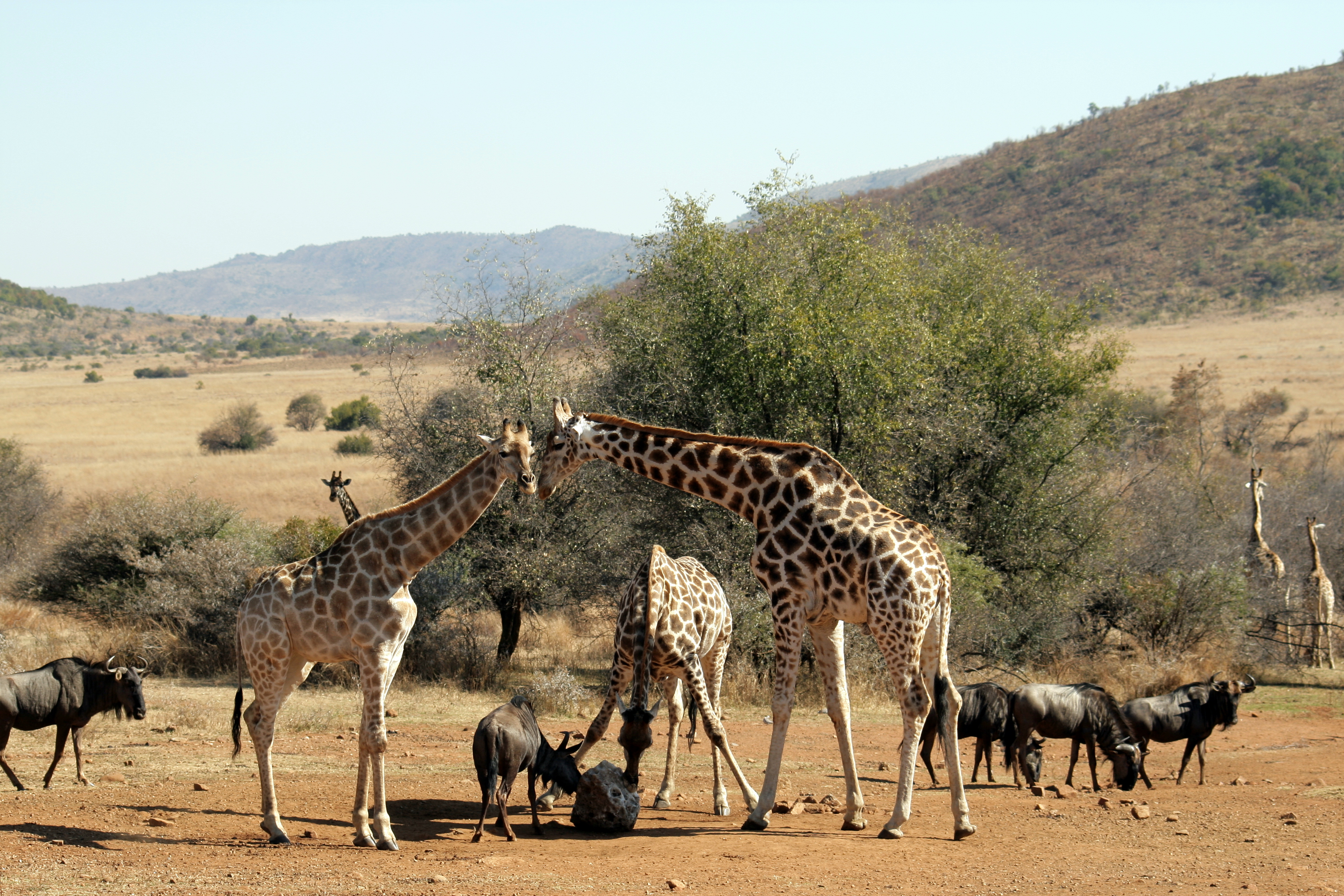 Giraffe and wildebeest at an artificial salt lick in the Pilanesberg Game Reserve, South Africa